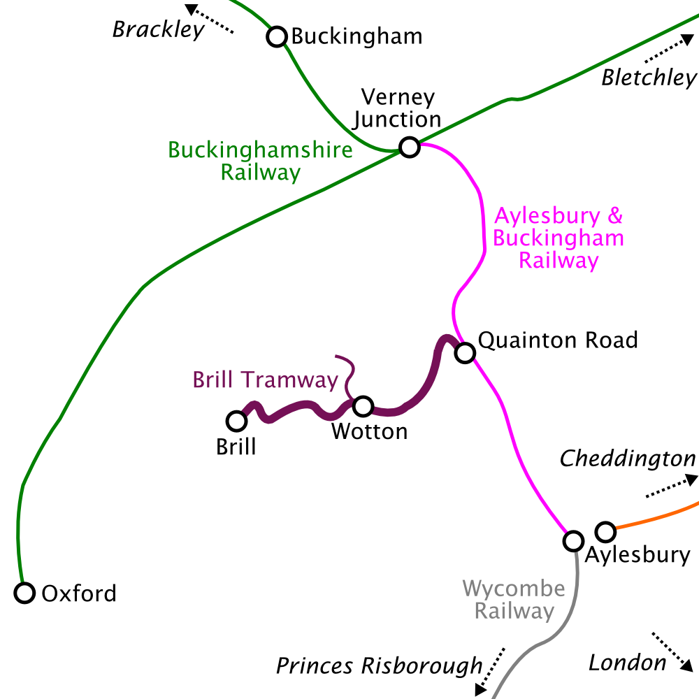 The Brill Tramway and associated lines, 1872